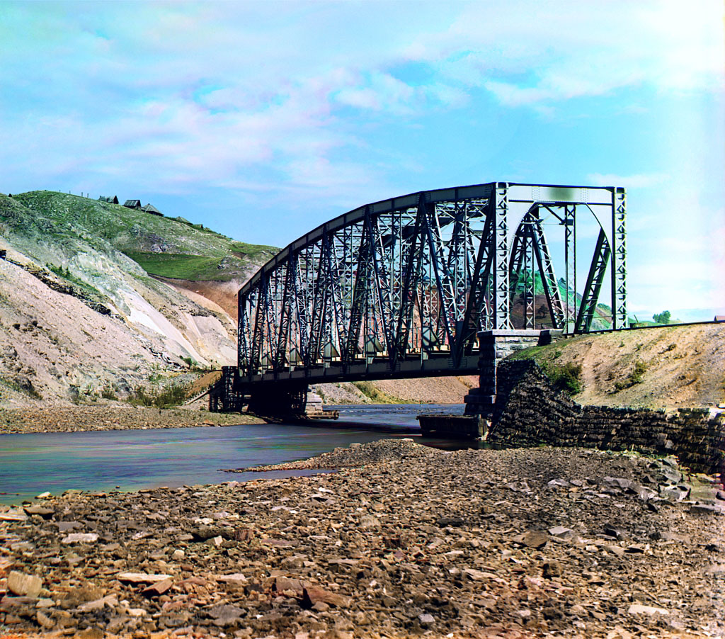 The bridge over the river Katava near the plant, 1910